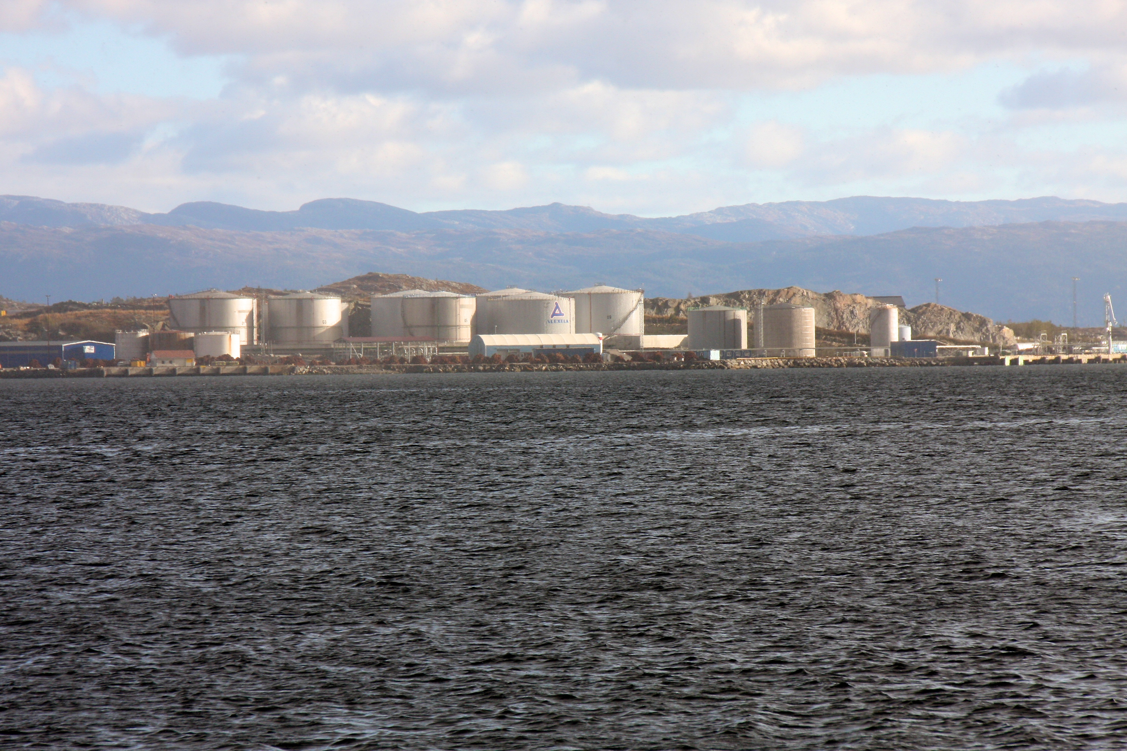 Gulen municipality, Norway.